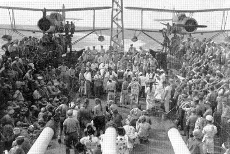 A Crossing the Line ceremony aboard the aft deck of the U.S. Navy light cruiser USS Montpelier (CL-57). Note the Curtis SOC Seagull Scout-Observation planes on the catapults.